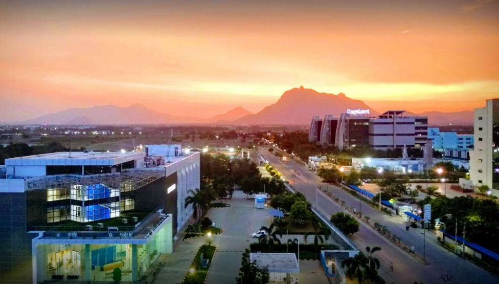 CHIL SEZ